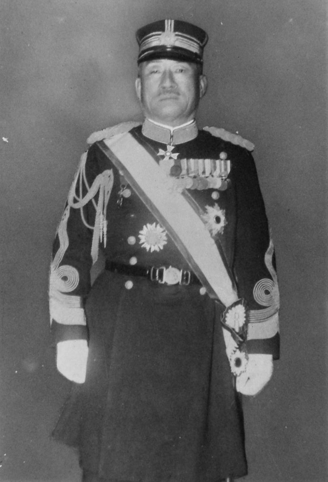 Hajime Sugiyama